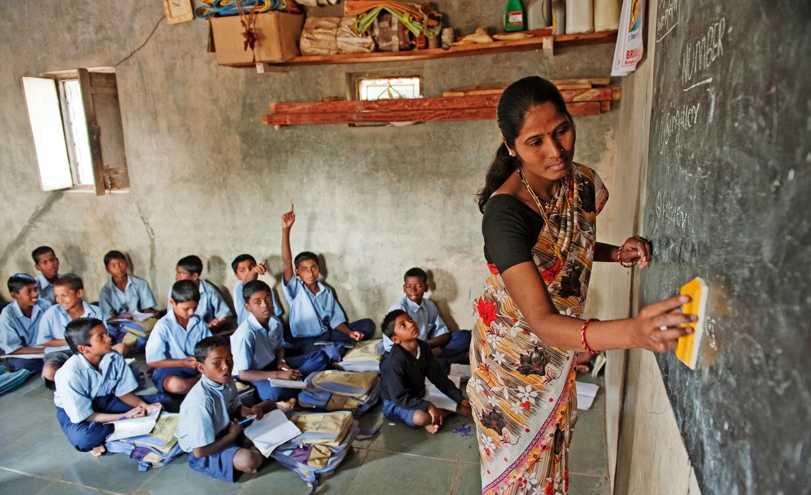 A class in the Bridge of Hope school. Bridge of Hope is a child sponsorship program by Gospel for Asia.